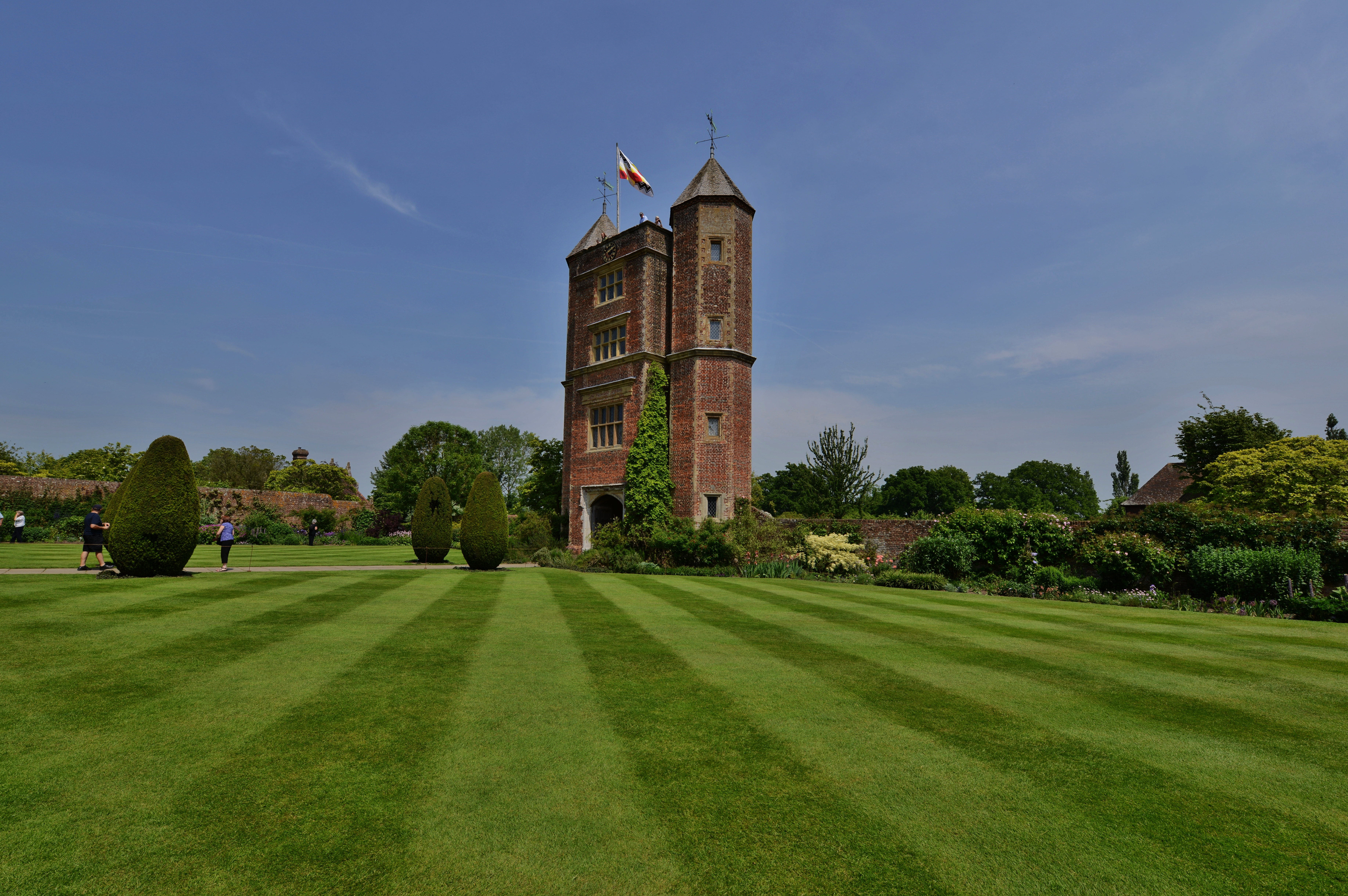 Photo by Michael Garlick